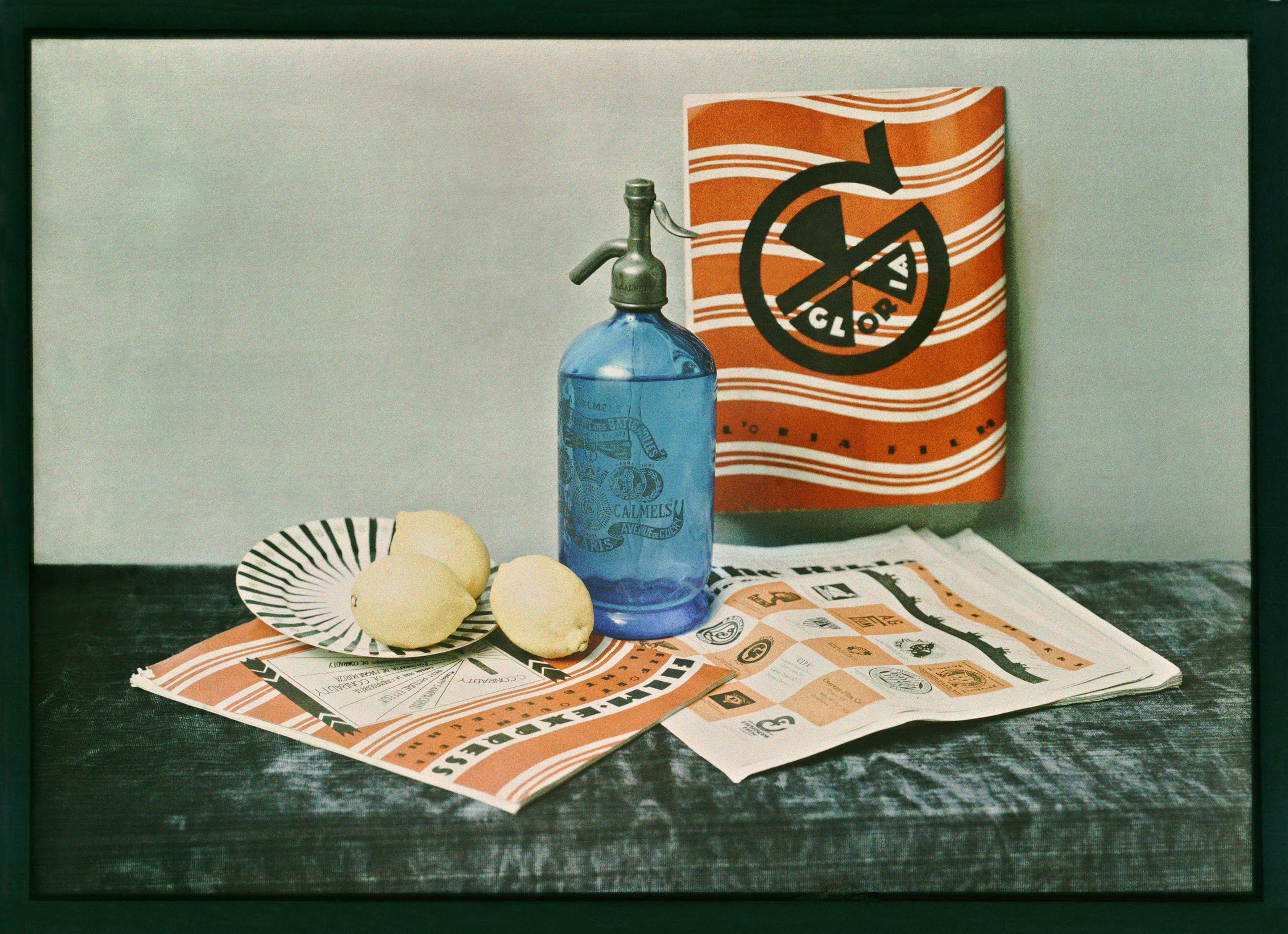 Still life, lemons, magazines and siphon, autochrome par Emmanuel Sougez (1889-1972). Picture taken ca 1926-1928 ; positive on glass, restored and uncropped print : 13x18 cm.